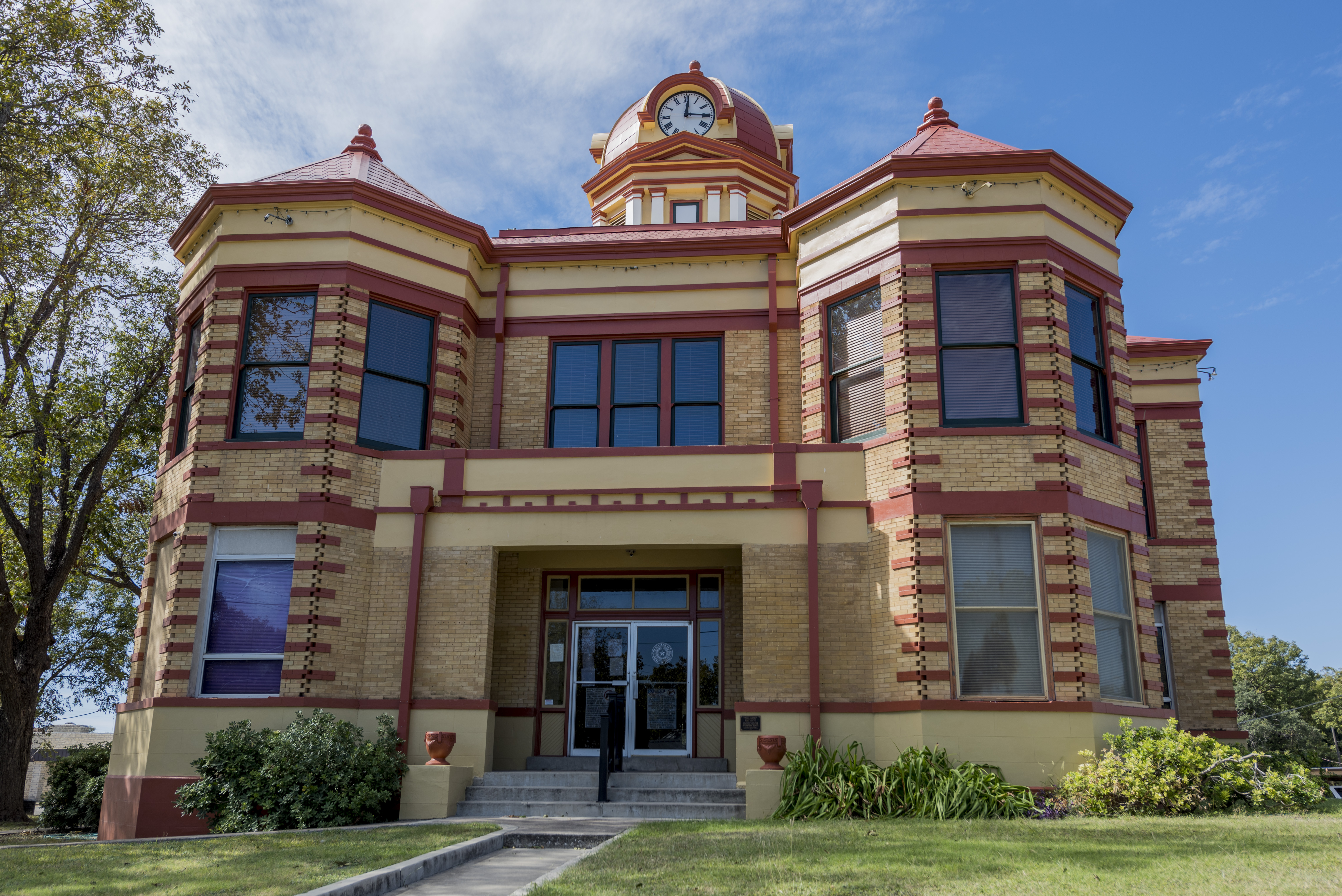 This is a photograph of the Kinney County, Texas courthouse taken in November 2019.